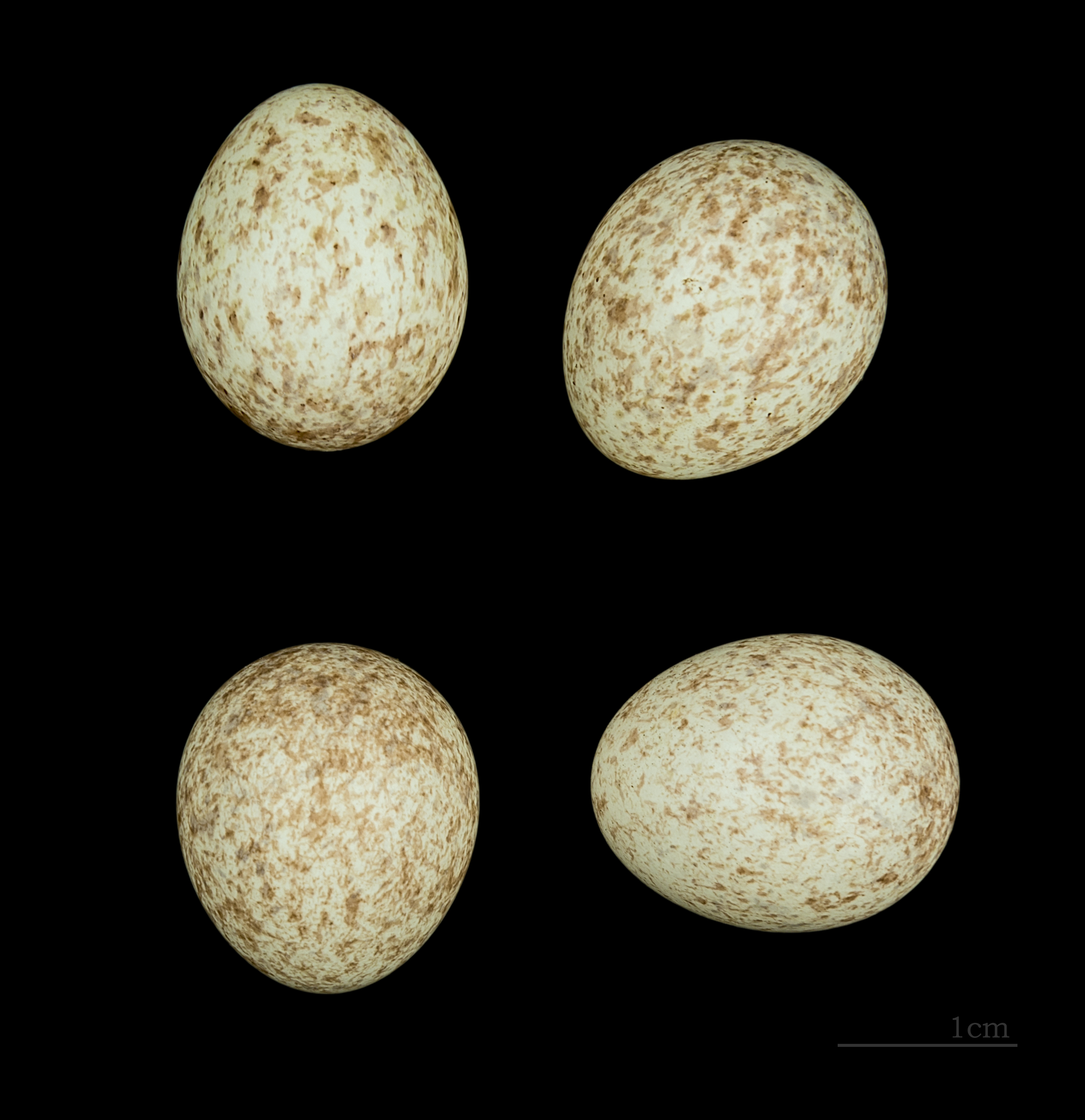 Egg of Chestnut-eared Bunting. Collection of René de Naurois /Jacques Perrin de Brichambaut.